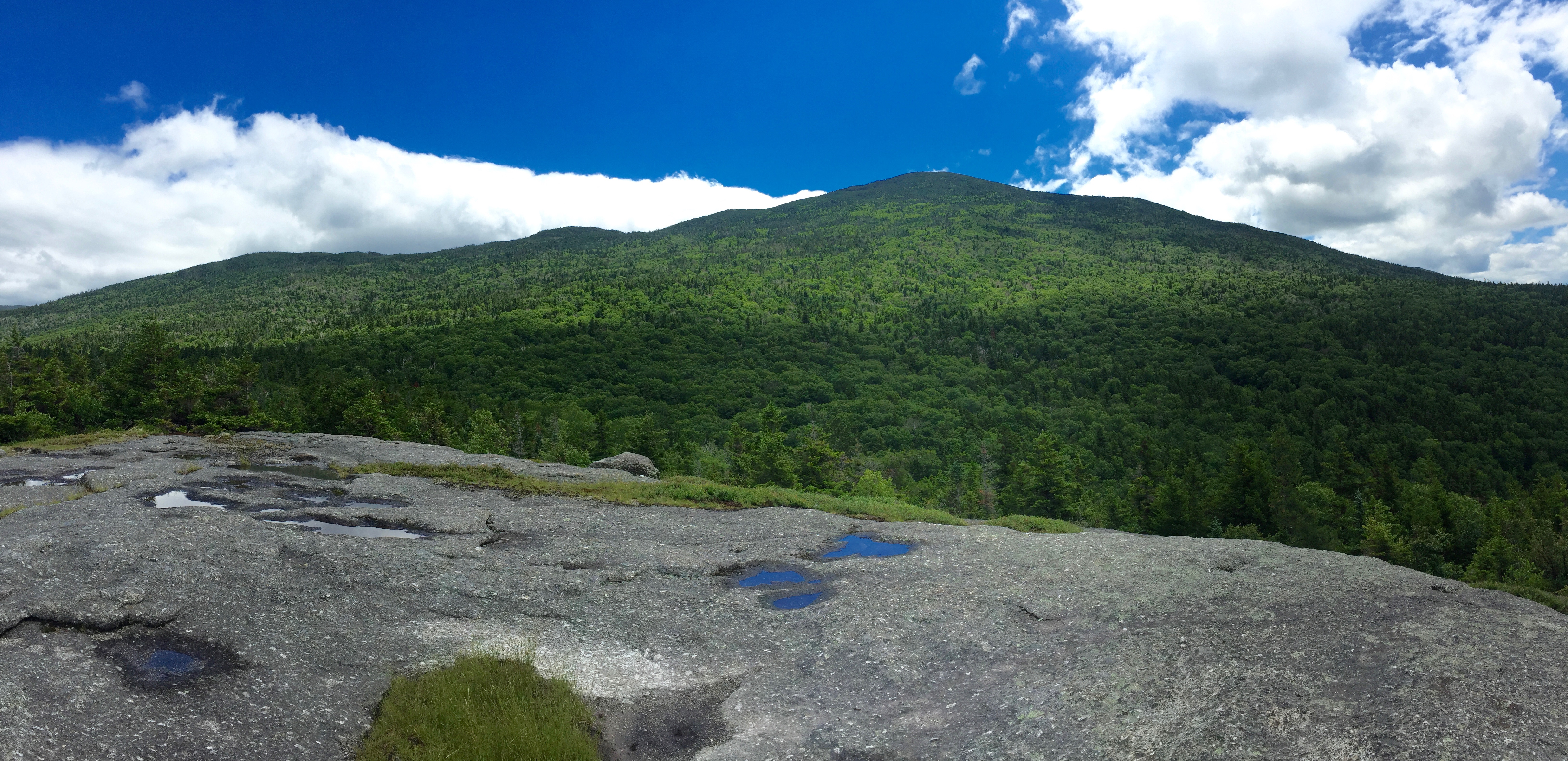 Kinsman Mountain from Bald Peak, July 2016